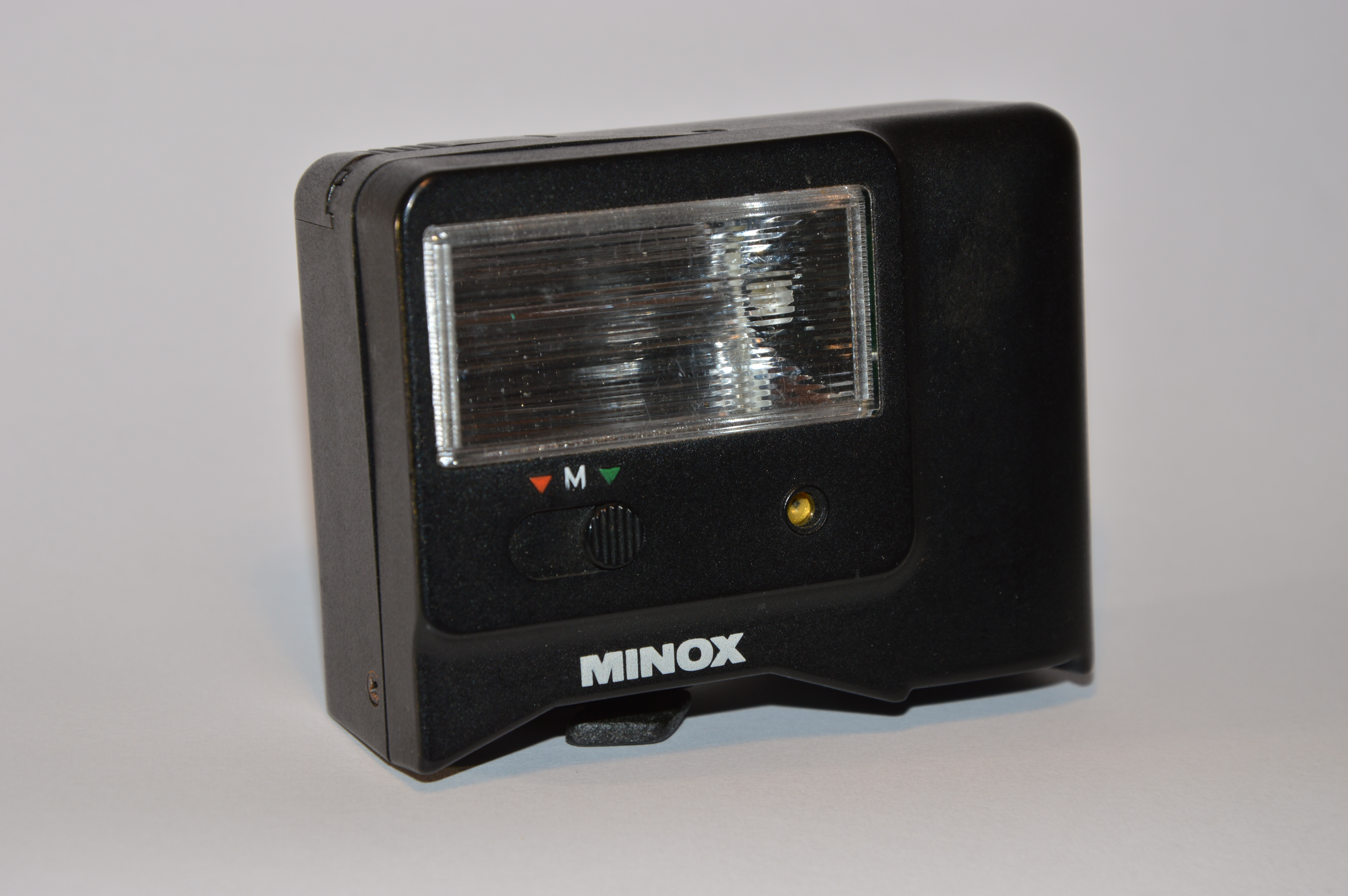 Minox FC 35 computer flash. Designed for Minox 35 cameras. Flash recycling time: approximately 10 seconds. Weight: 4.6 oz.